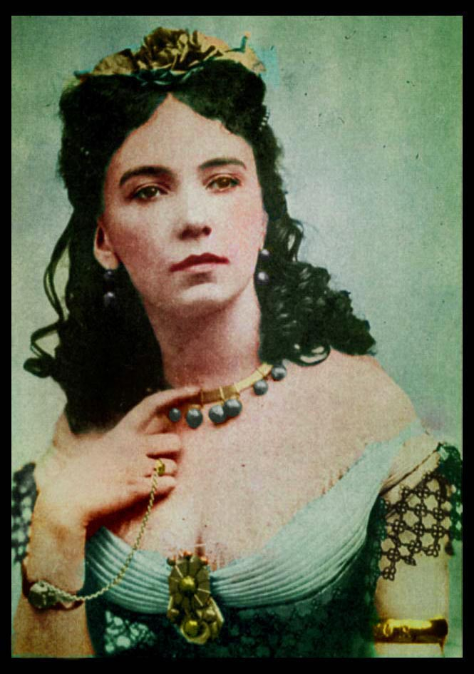 tinted photo of Cora Pearl